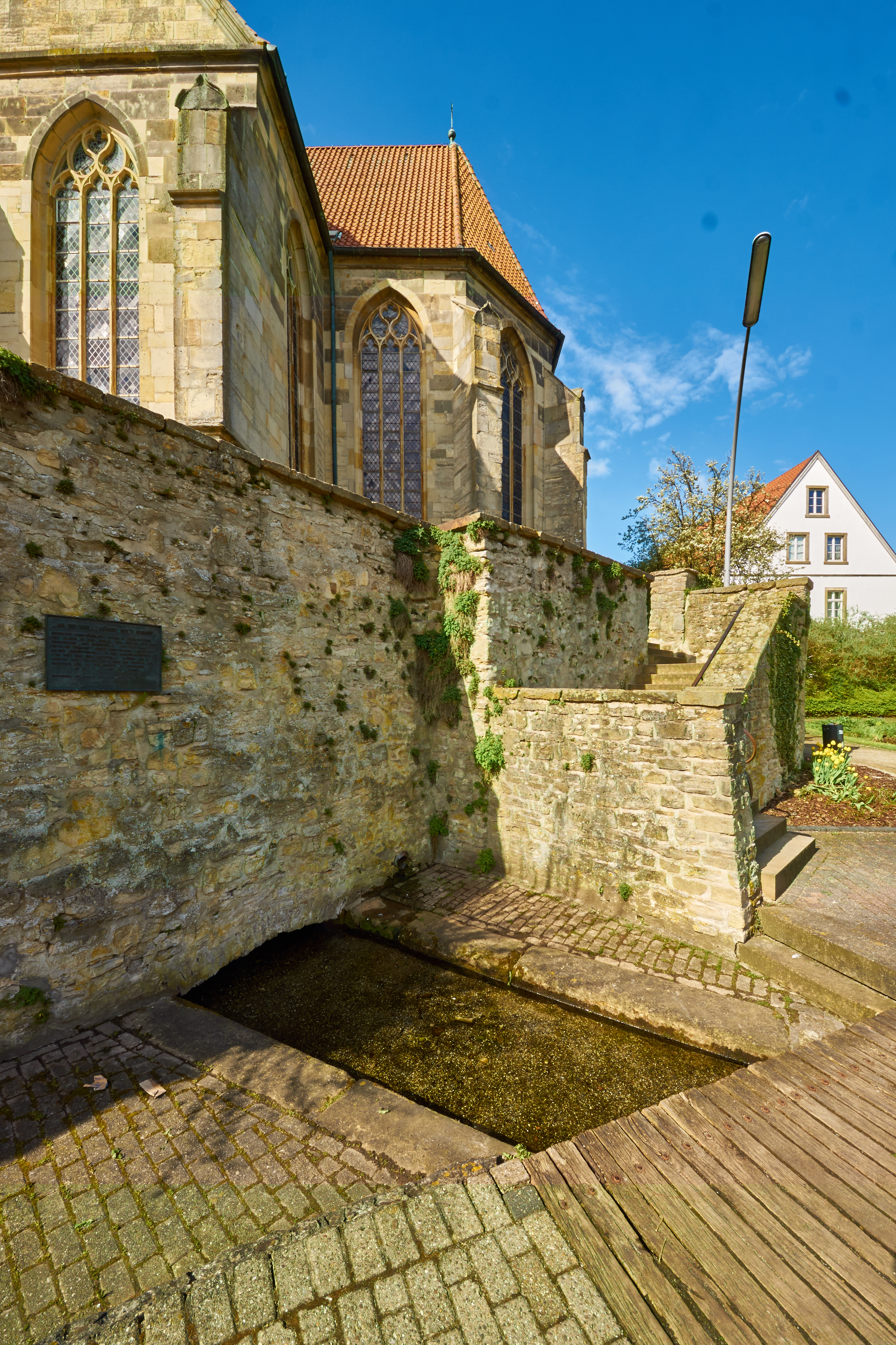 St. Brictius is a church in Schöppingen, North Rhine-Westphalia, Germany. This is a photograph of an architectural monument.